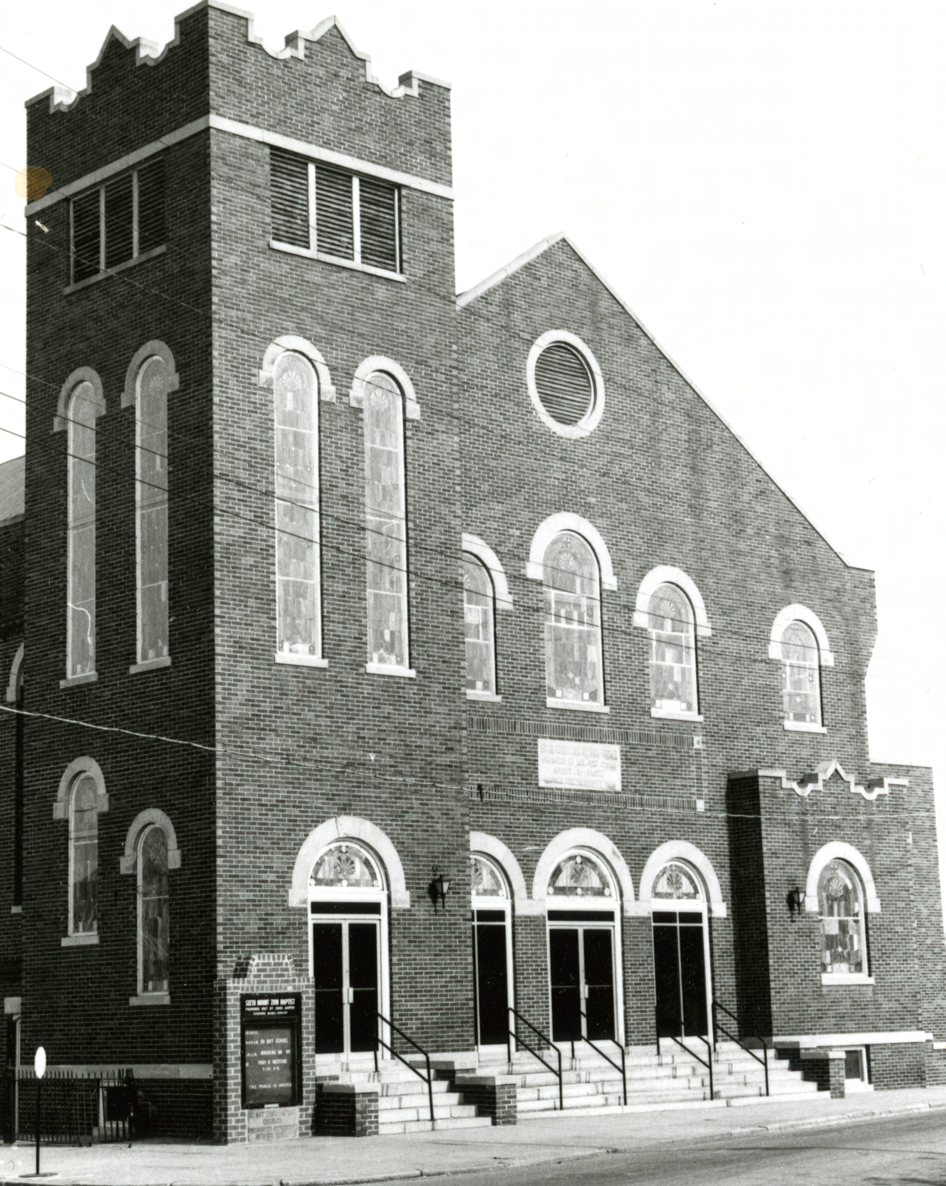 Address/Title: 14 West DuVal Street Other Title(s): Sixth Mount Zion Church Photographer: Zehmer, John G. (John Granderson), 1942- Original Description (from Book): The Sixth Mount Zion Church - The church of the famous preacher, John Jasper, this church's exterior character is determined by a remodeling in the early twentieth century. City/Location: Richmond (Va.) Date of photograph: ca. 1978 Map URL: Original Publication: Zehmer, John G., and Robert P. Winthrop. 1978. The Jackson Ward historic district. Richmond: Dept. of Planning and Community Development. Rights: Reference URL: Collection: VCU Jackson Ward Historic District